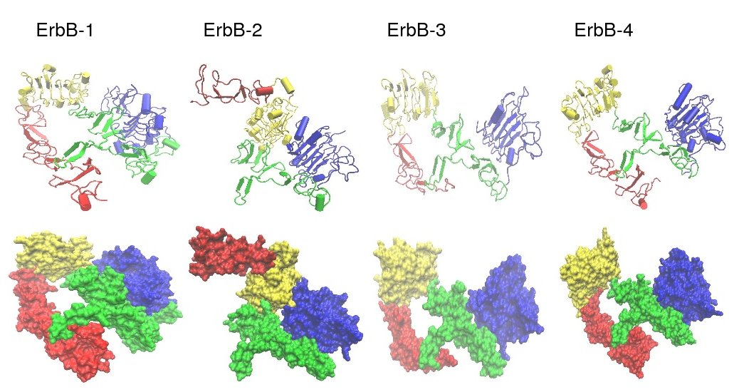 This image was created using a combination of VMD, powerpoint openoffice and GIMP. Using the pdb files 1NQL (ErbB-1), 1S78 (ErbB-2), 1M6B (ErbB-3) and 2AHX (ErbB-4)